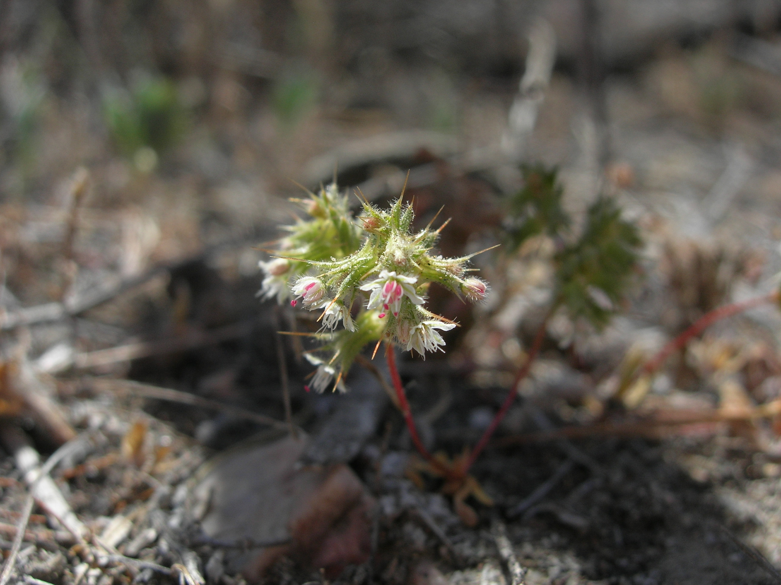 Dodecahema leptoceras (slender-horned spineflower), Bee Canyon, Los Angeles County